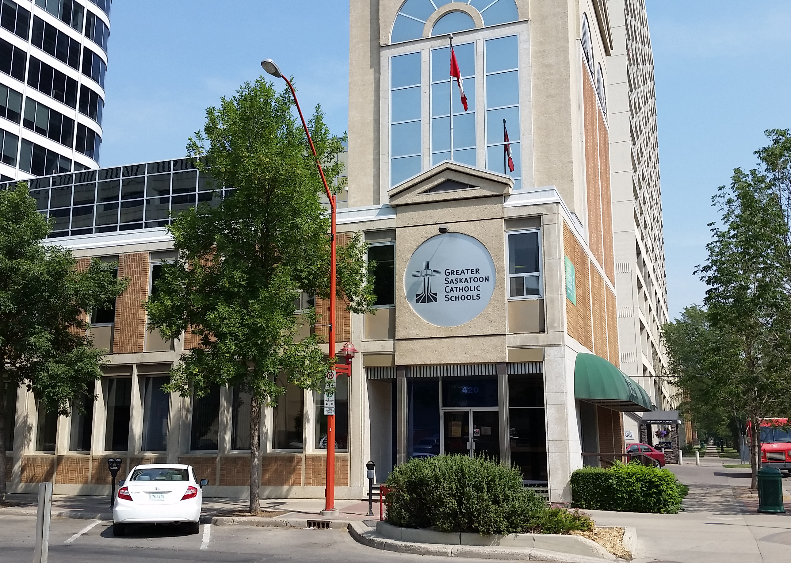 Photograph of the front entrance of the Saskatoon separate school board office